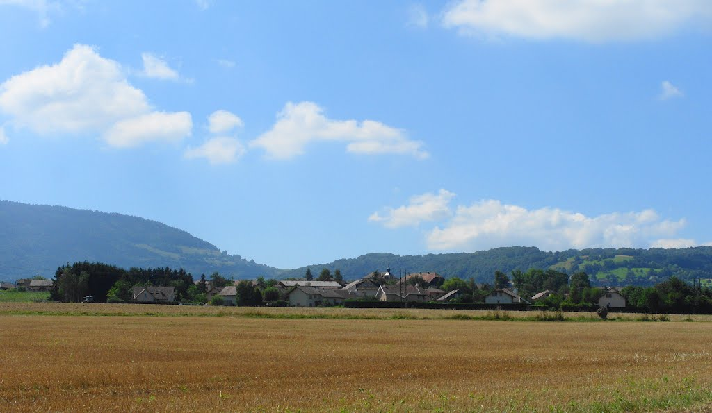 Feigères (576m), French Alps.